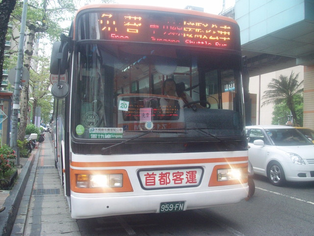 capitalbus 959FN